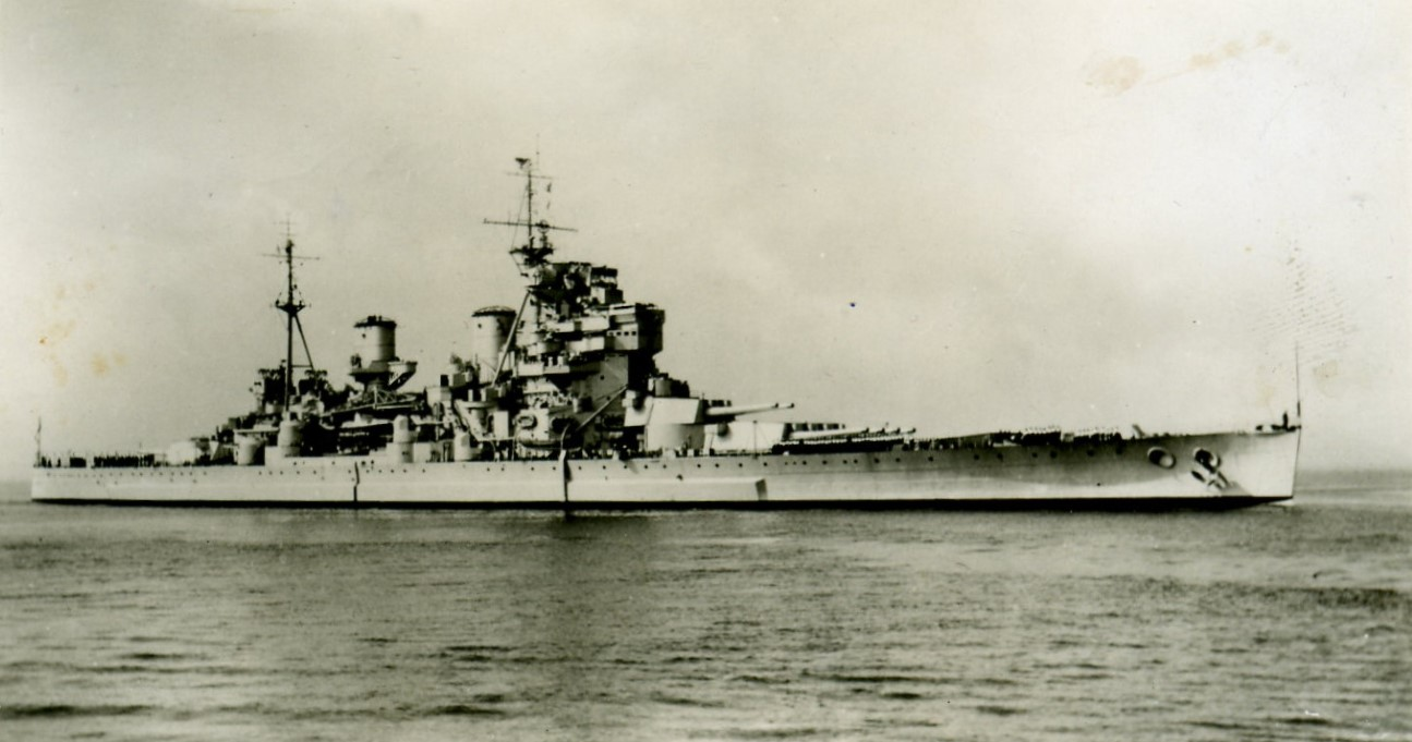 Old postcards of British ships